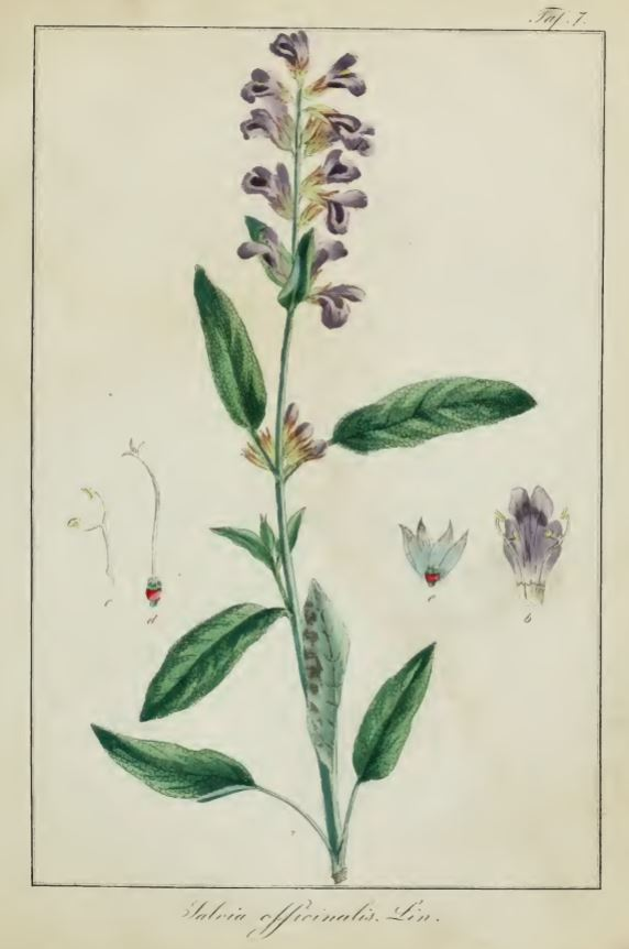 Salvia officinalis from the book "Medicinisch-pharmaceutische Botanik oder Beschreibung und Abbildung sämmtlicher in der österr. Landes-Pharmacopoe vom Jahre 1836 aufgeführten Arzneipflanzen, Band 1, Tafel 7" written by Carl Stupper 1841.